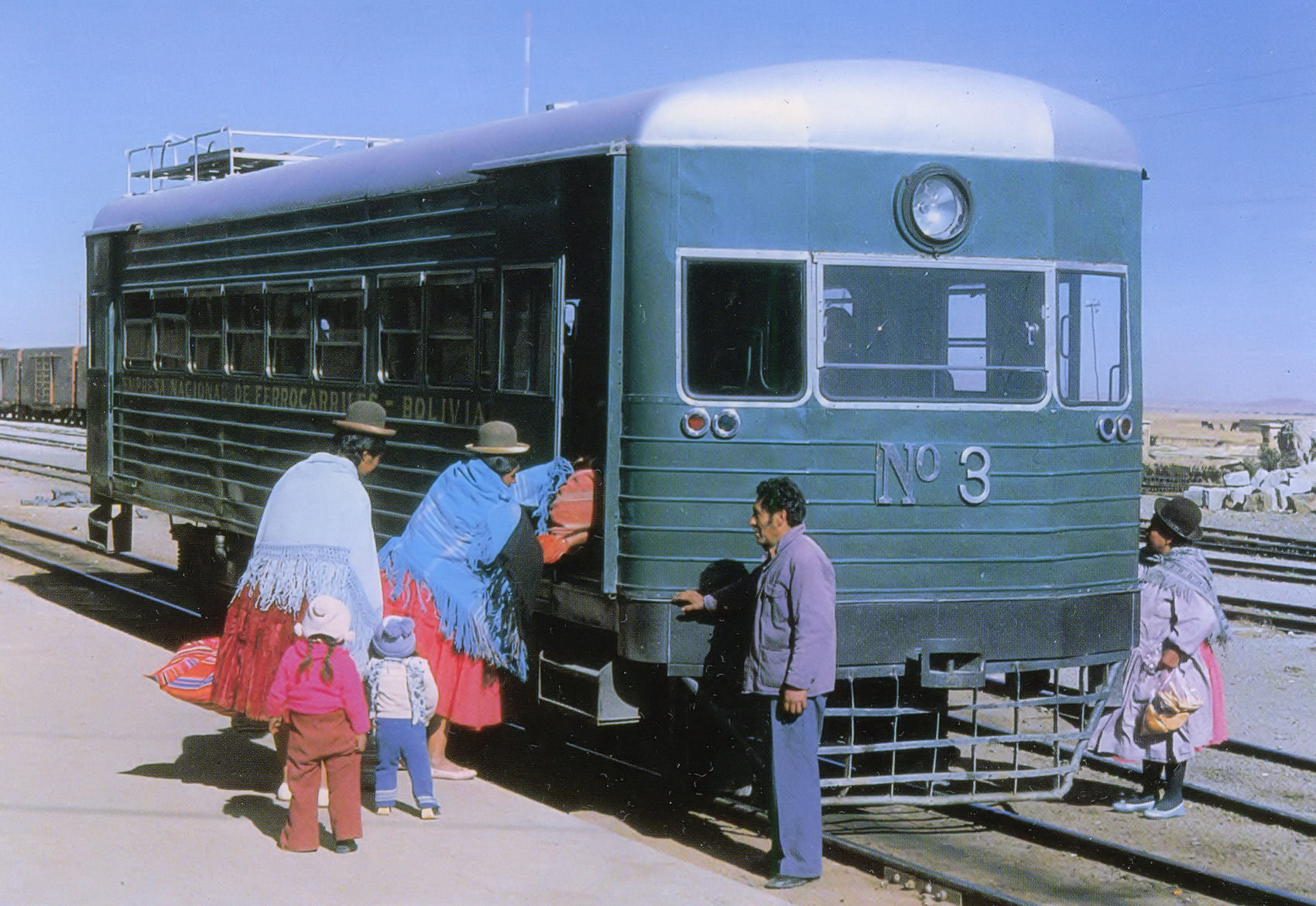 Motorcar Nº 3 - Wickham / Leyland 1953 of the ENFE (State Railway of Bolivia). Picture taken by Albrecht Sappel (Southwest of La Paz).